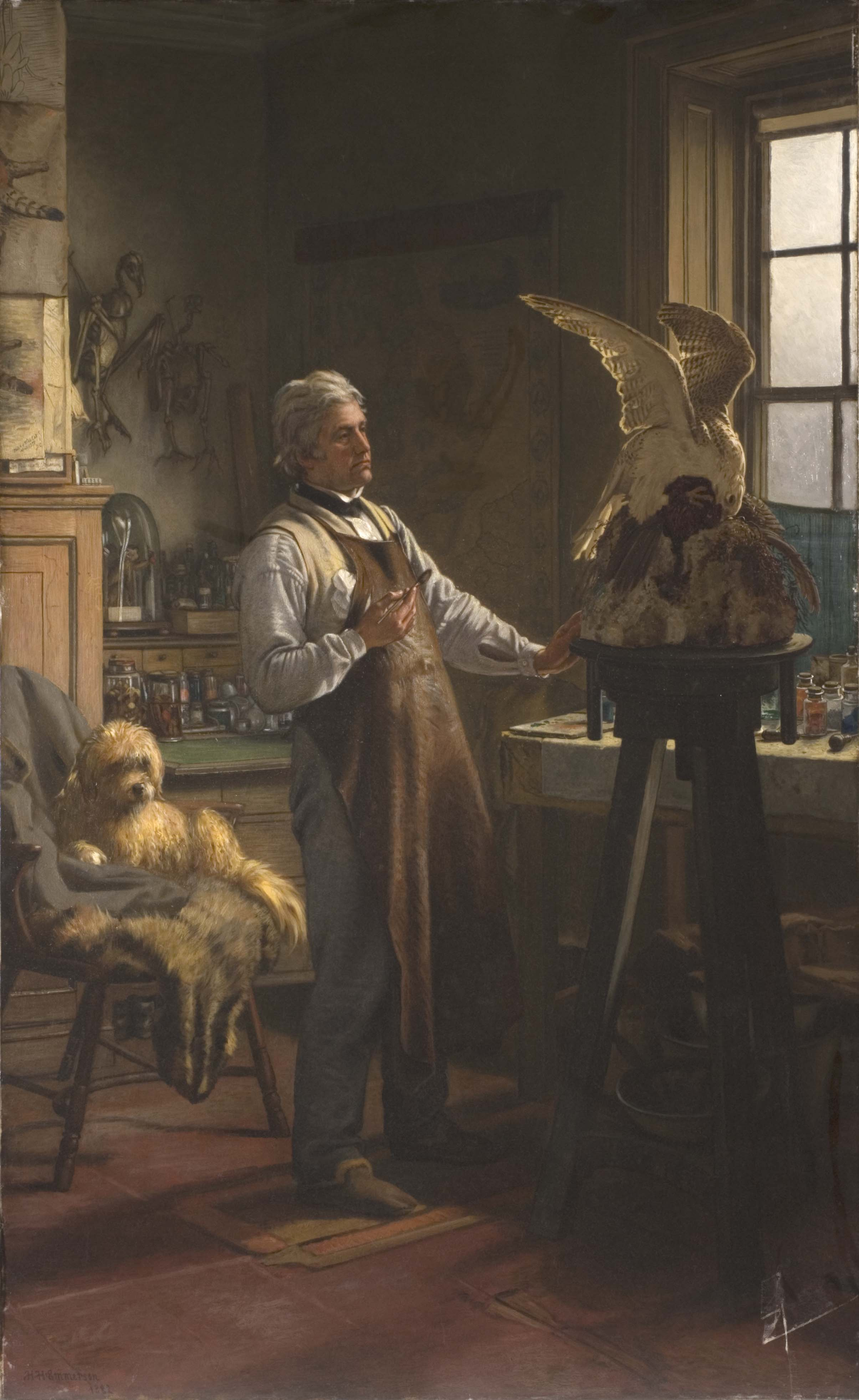 Portrait of John Hancock in his Studio by H H Emmerson c1890. The original is in the collection of the Natural History Society of Northumbria, Great North Museum:Hancock.